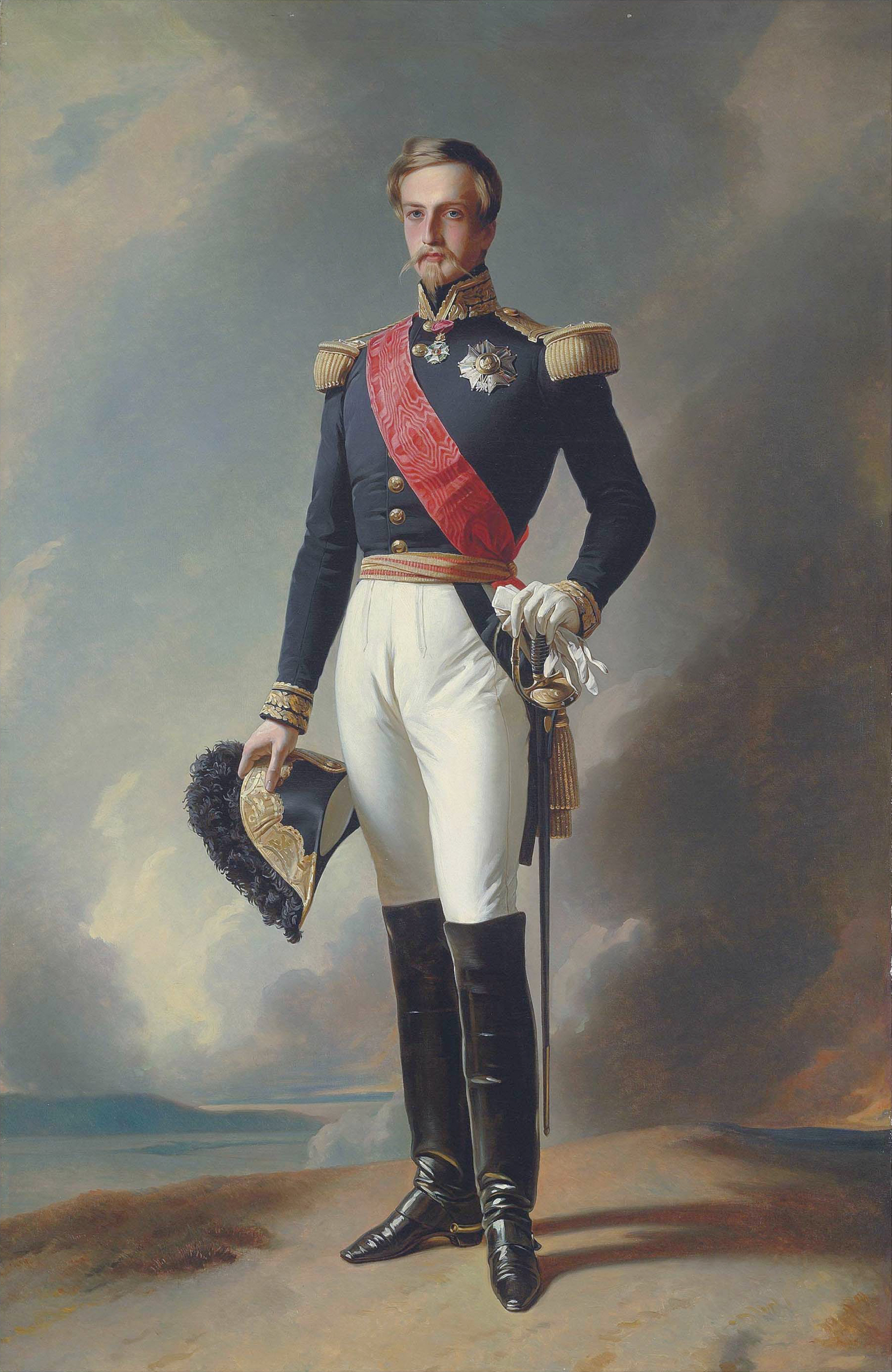 Henri d'Orléans, Duc D'Aumale oil on canvas 218 x 142 cm original is lost